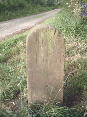 Old border stone in Hager Feld, Viersen, Germany.